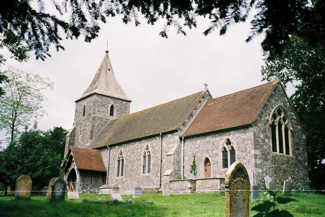 Pentridge: parish church of St. Rumbold Built in 1855.